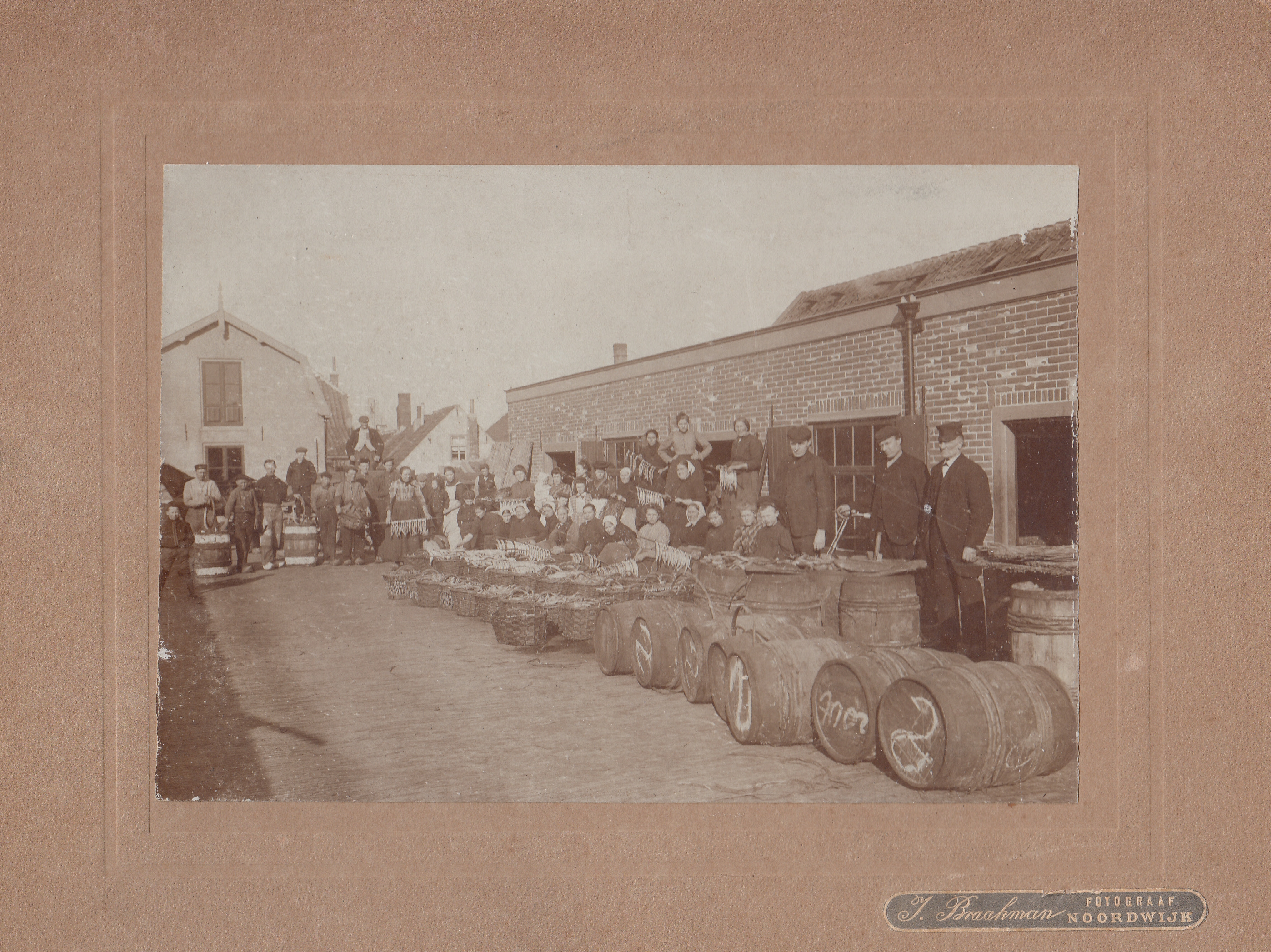 Herring smokehouse, around 1895, Noordwijk, Nederland. The place where the herring was stringed on a stick (speet). Very old and rare, original photograph.